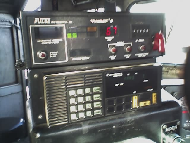 Picture of a typical Head of Train Device that communicates with the End of Train Device